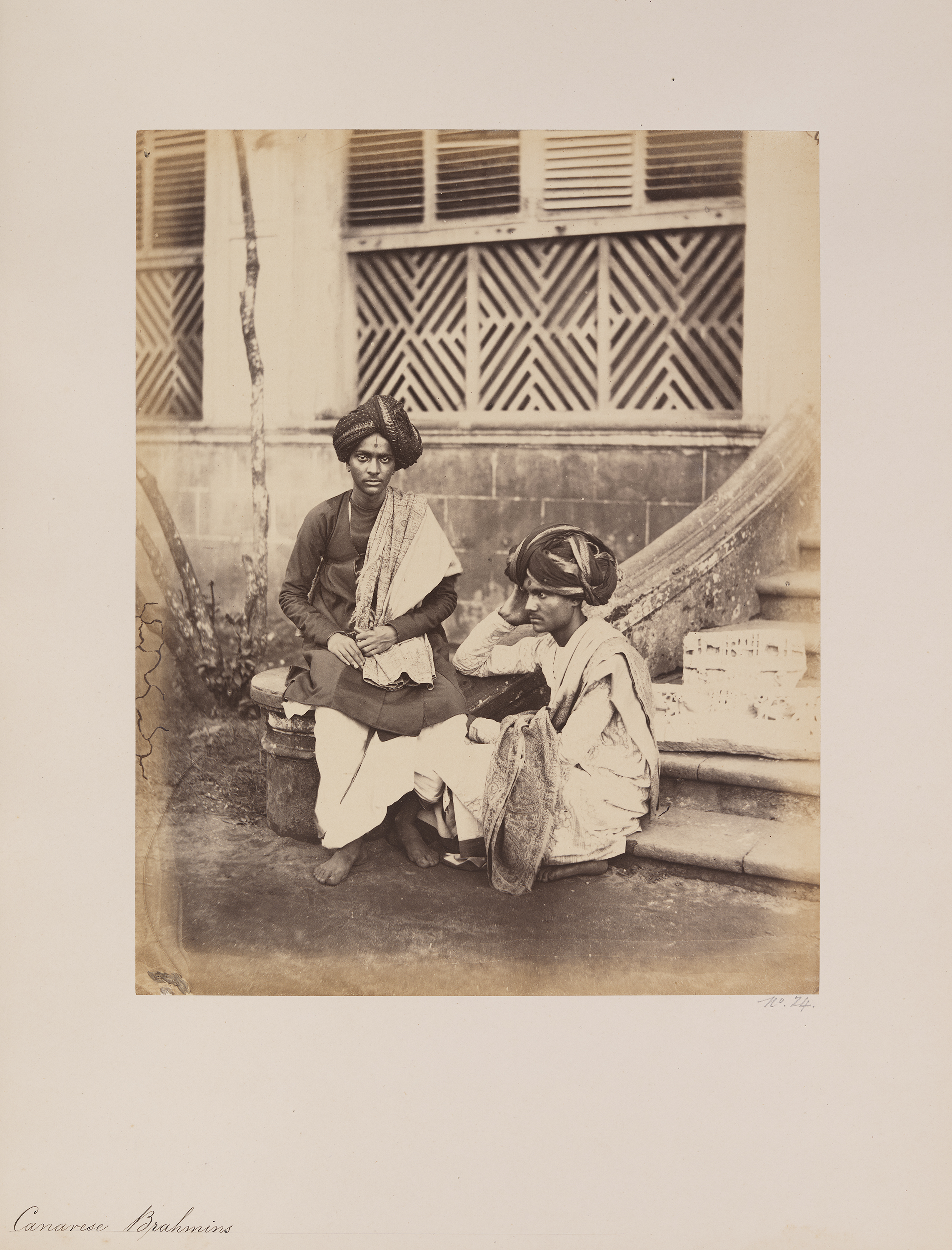 Title: Canarese Brahmins Alternative Title: [Kanarese Brahmins] Creator: Johnson, William Date: ca. 1855-1862 Part Of: Photographs of Western India Series: Photographs of Western India. Volume I. Costumes and Characters. Place: India Physical Description: 1 photographic print: albumen; 26 x 20 cm on 42 x 35 cm mount File: vault_ag2002_1407x_1_024_canarese_opt.jpg Rights: Please cite Southern Methodist University, Central University Libraries, DeGolyer Library when using this image file. A high-quality version of this file may be obtained for a fee by contacting . For more information, see: View Europe, India, and Asia: Photographs, Manuscripts, and Imprints